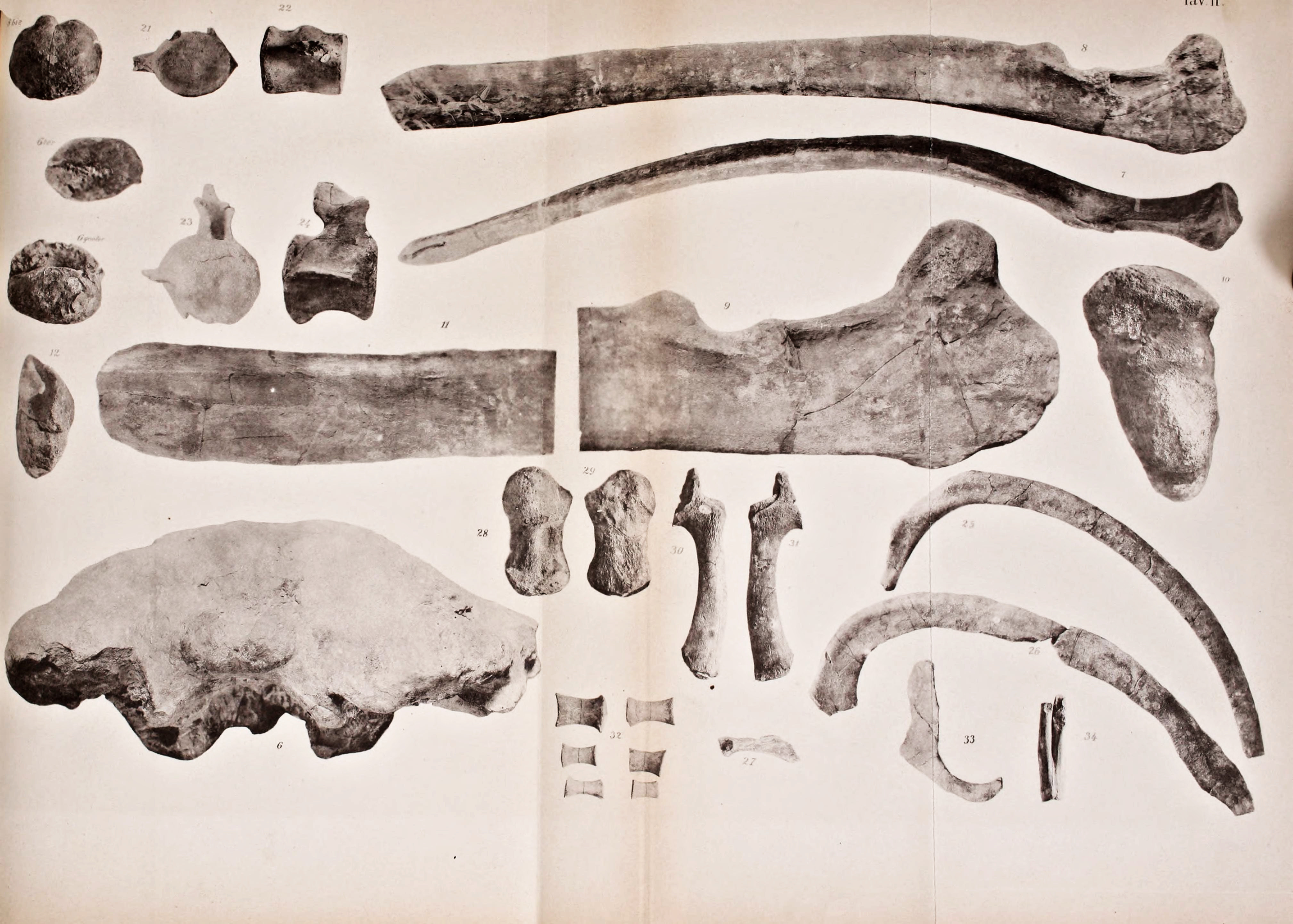 Caudal view of skull, mandible, and postcranial parts of Eschrichtioides originally described as Balaenoptera Gastaldii.